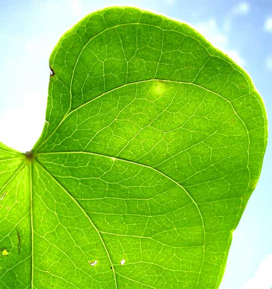 A leaf from a Dioscorea species ("yam"). The veins create somewhat rectangular shapes.